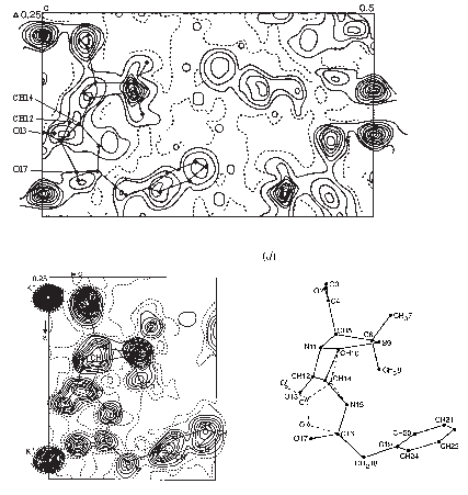 Первые карты электронной плотности в молекуле пенициллина (рубидиевая соль) и востановленная по ним пространственная структура пенициллина (справа внизу).